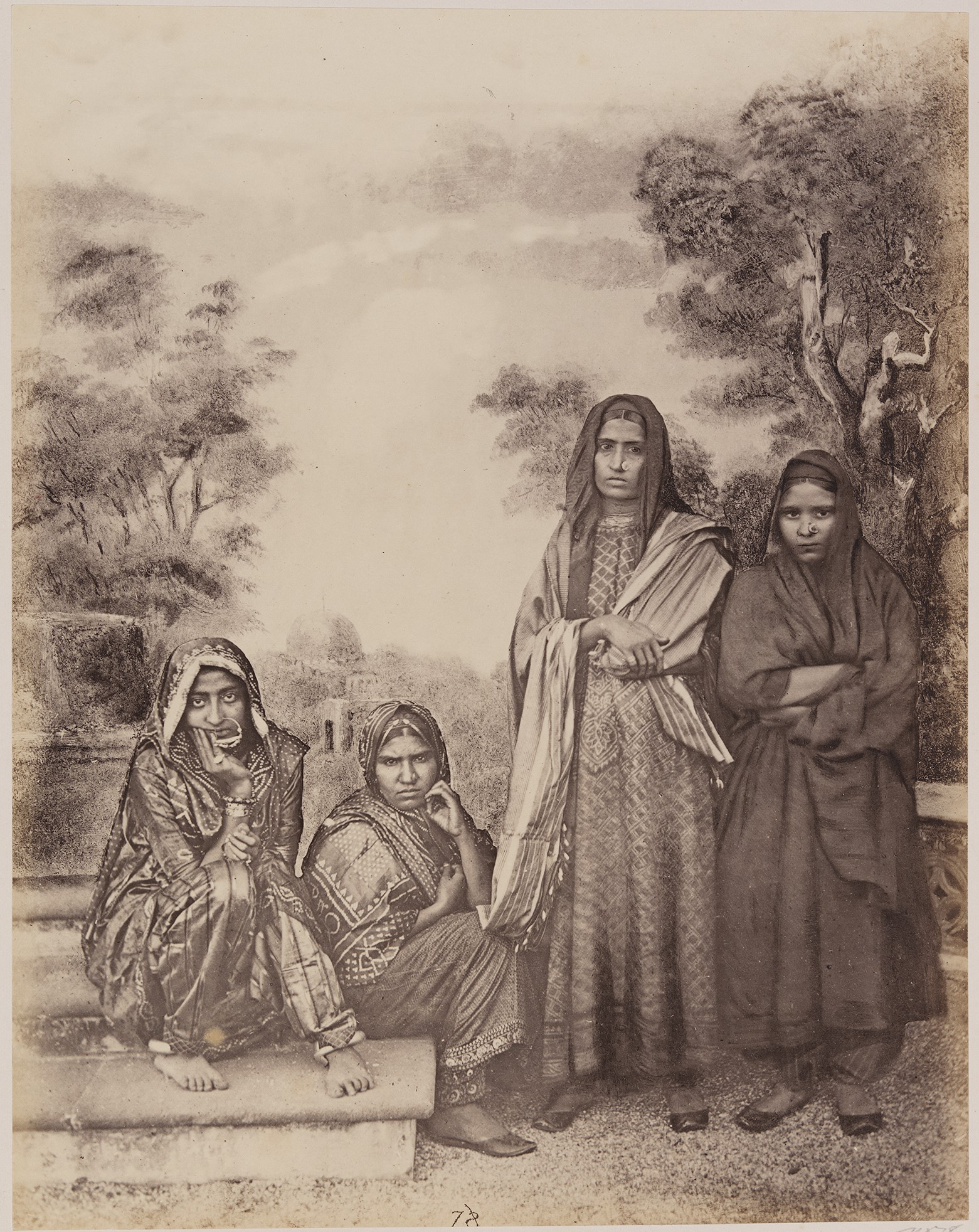 Title: Mehman Women Alternative Title: [Memon Women] Creator: Johnson, William Date: ca. 1855-1862 Part Of: Photographs of Western India Series: Photographs of Western India. Volume I. Costumes and Characters. Place: India Physical Description: 1 photographic print: albumen; 26 x 20 cm on 42 x 35 cm mount File: vault_ag2002_1407x_1_078_mehman_opt.jpg Rights: Please cite Southern Methodist University, Central University Libraries, DeGolyer Library when using this image file. A high-quality version of this file may be obtained for a fee by contacting . For more information, see: View Europe, India, and Asia: Photographs, Manuscripts, and Imprints